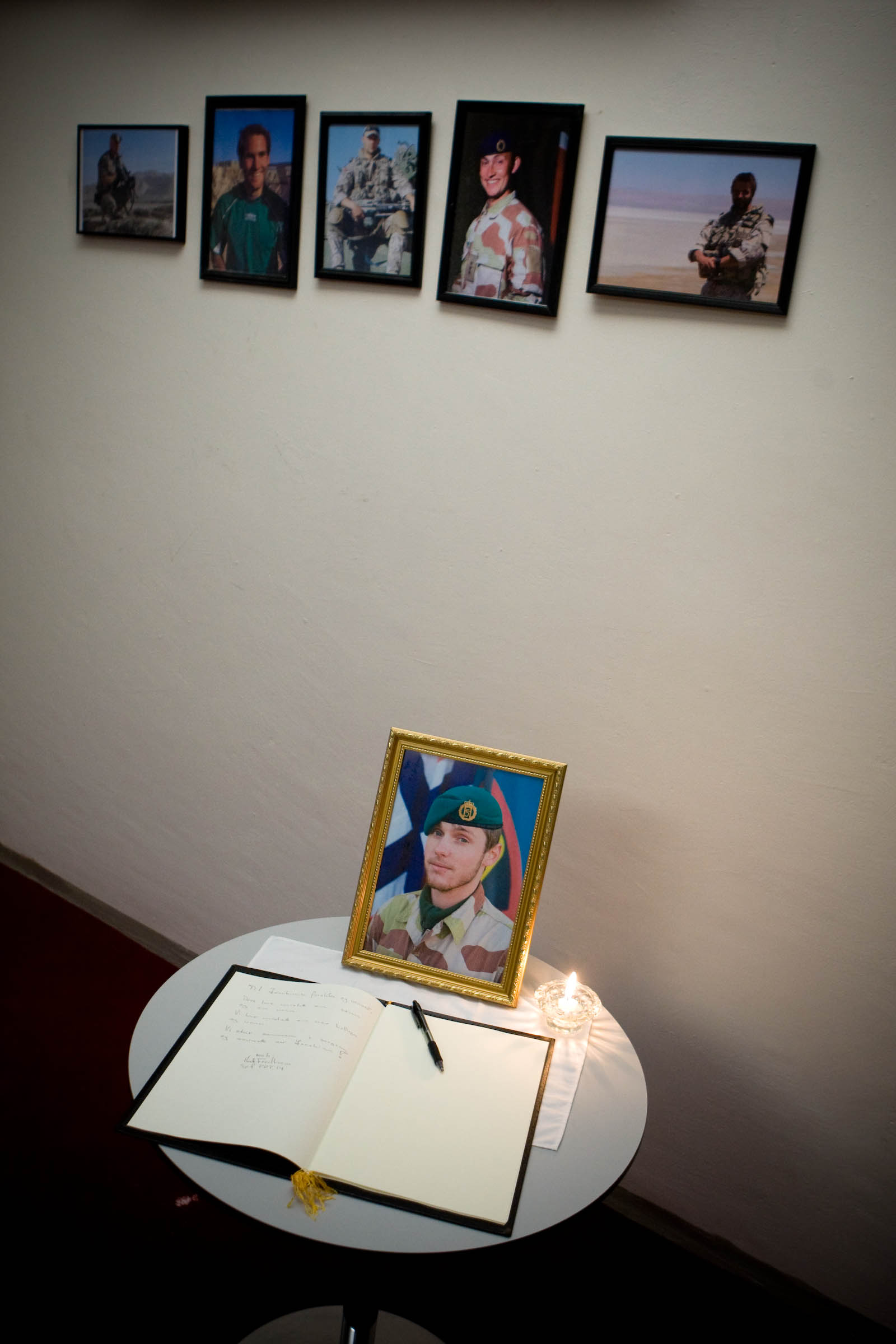 Claes Joachim Olsson's condolence protocol. On the wall hangs the pictures of the soldiers of ISAF which has lost their lives in Meymaneh. From left: finnish Petri Tapio Immonen, norwegian Kristoffer Sørlie Jørgensen, latvian Edgars Ozolins, norwegian Trond Petter Kolseth and latvian Davis Baltabolt.